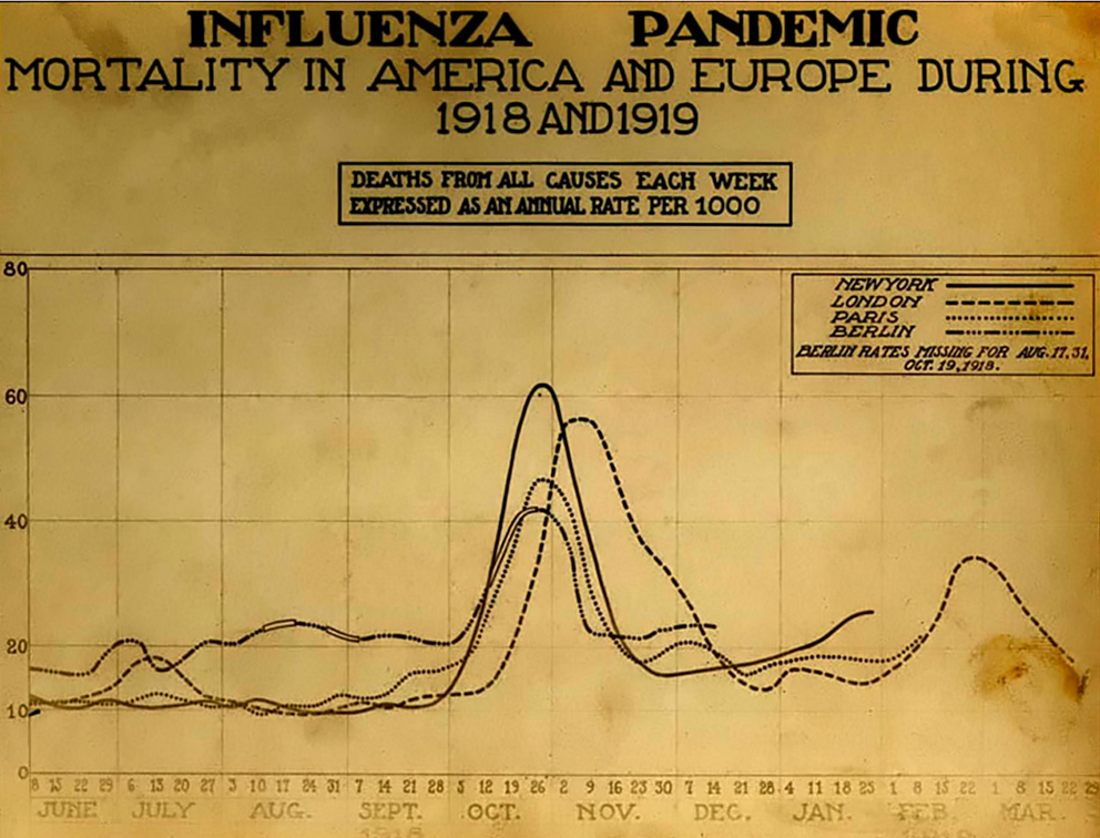 The Spanish Influenza. Chart showing mortality from the 1918 influenza pandemic in the US and Europe.